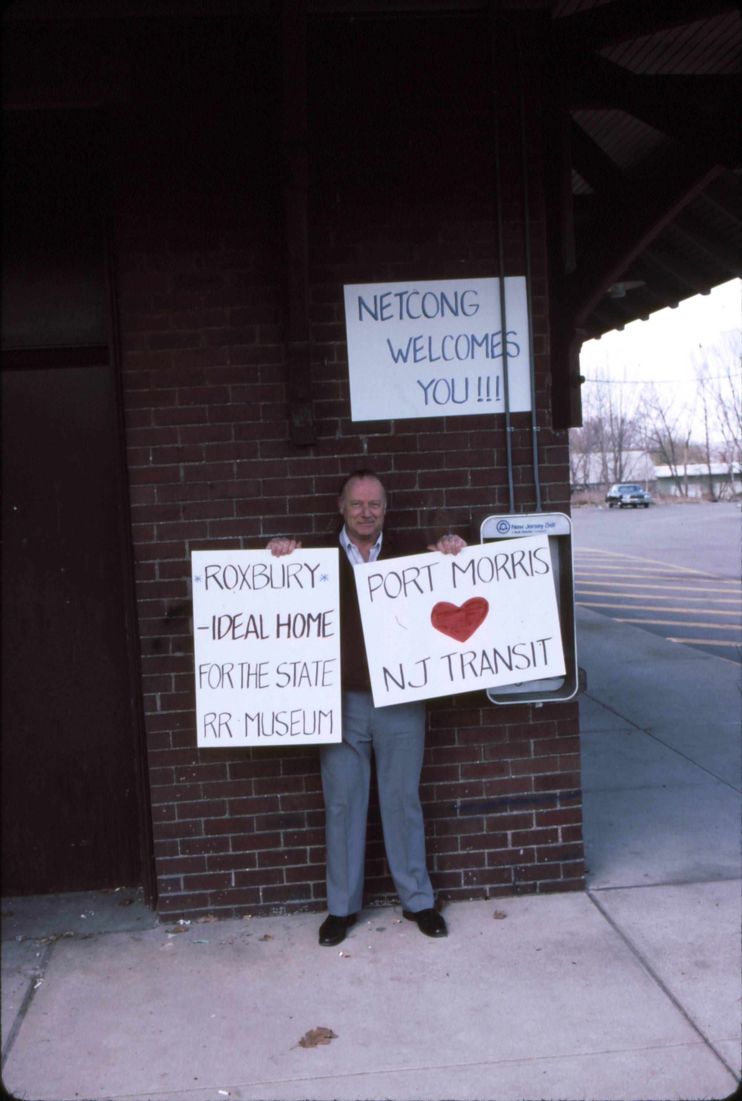 Fred Wertz helps promote the preservation of the Lackawanna Cut-Off and a railroad museum at Port Morris, NJ in this photo taken at Netcong in 1988.Wally From Columbia (NJ) (talk) 15:05, 4 October 2010 (UTC)